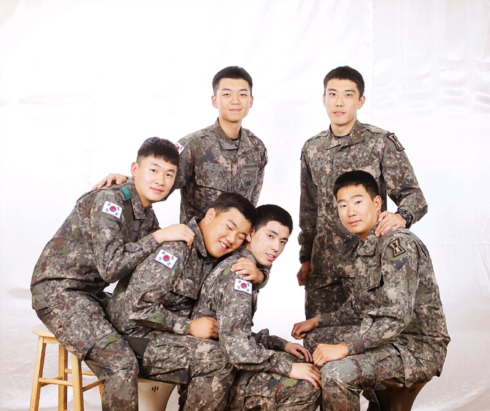 Photo of ROK Army 1st Corps Some Corporals